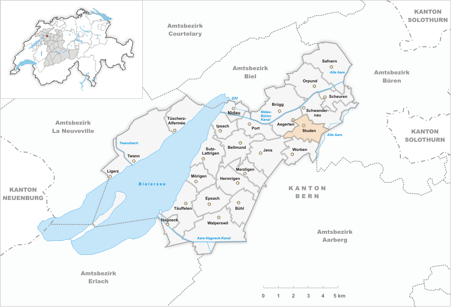 Municipality Studen